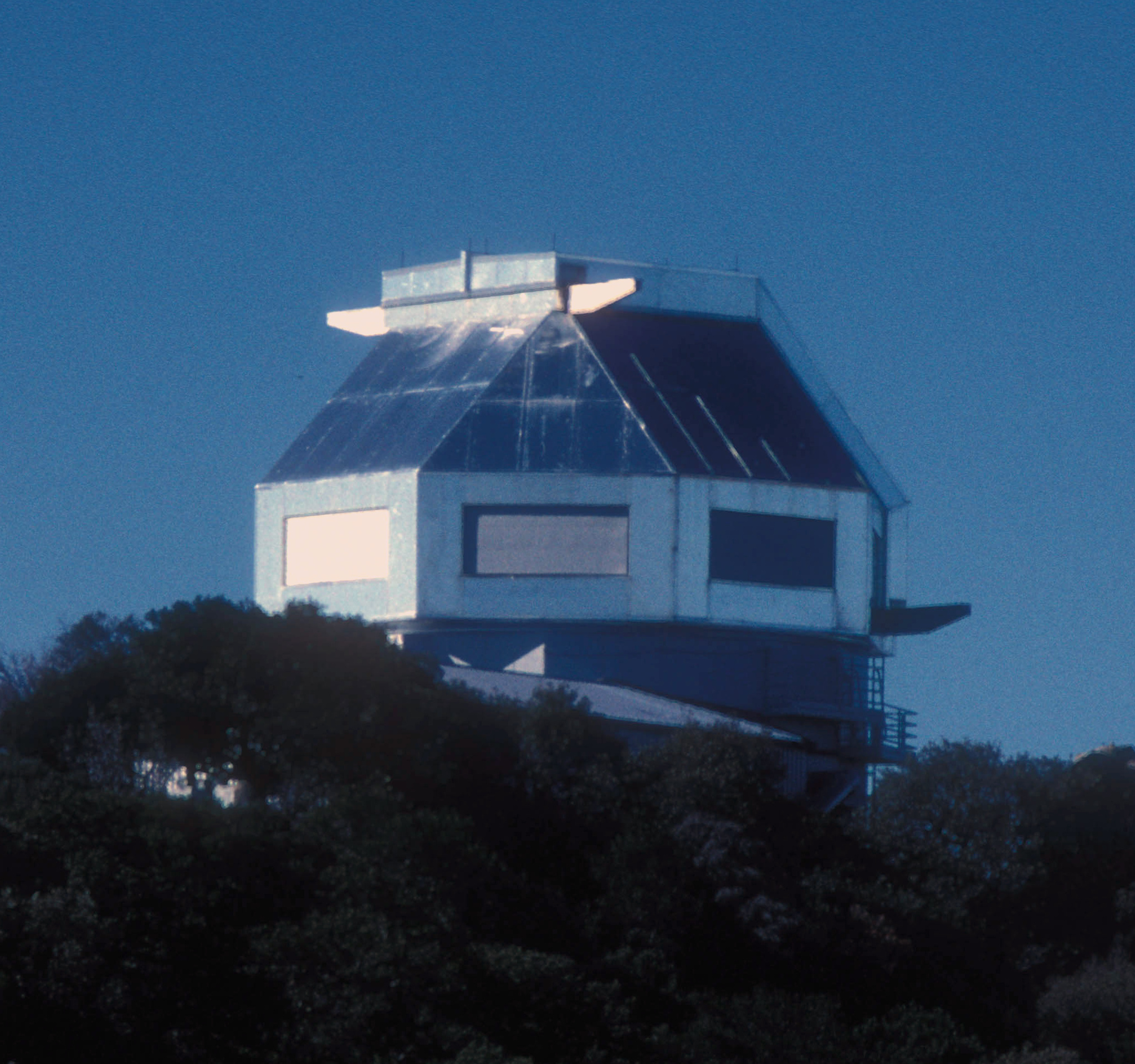 THE TELESCOPE IS DESIGNED BY AVOID THE CHANGES IN TEMPERATURES CAUSED BY WIND CURRENTS WHICH DEGRADE THE IMAGES; NEWEST AND SECOND LARGEST TELESCOPE ON KITT PEAK, Arizona